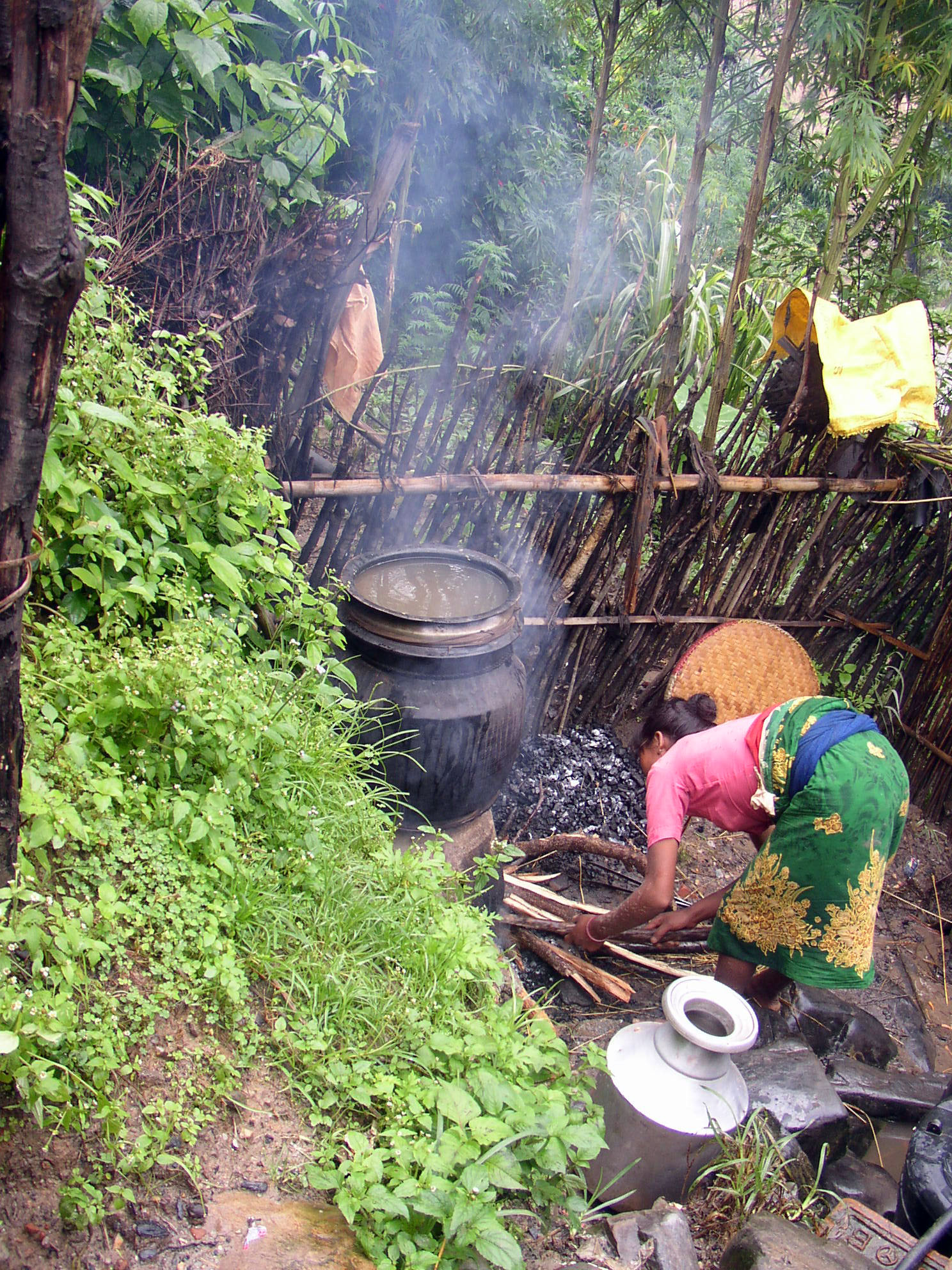 Little village distillery nearby Nagarkot